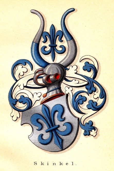 Coat of arms of the Skinkel (with fleur-de-lys) family.